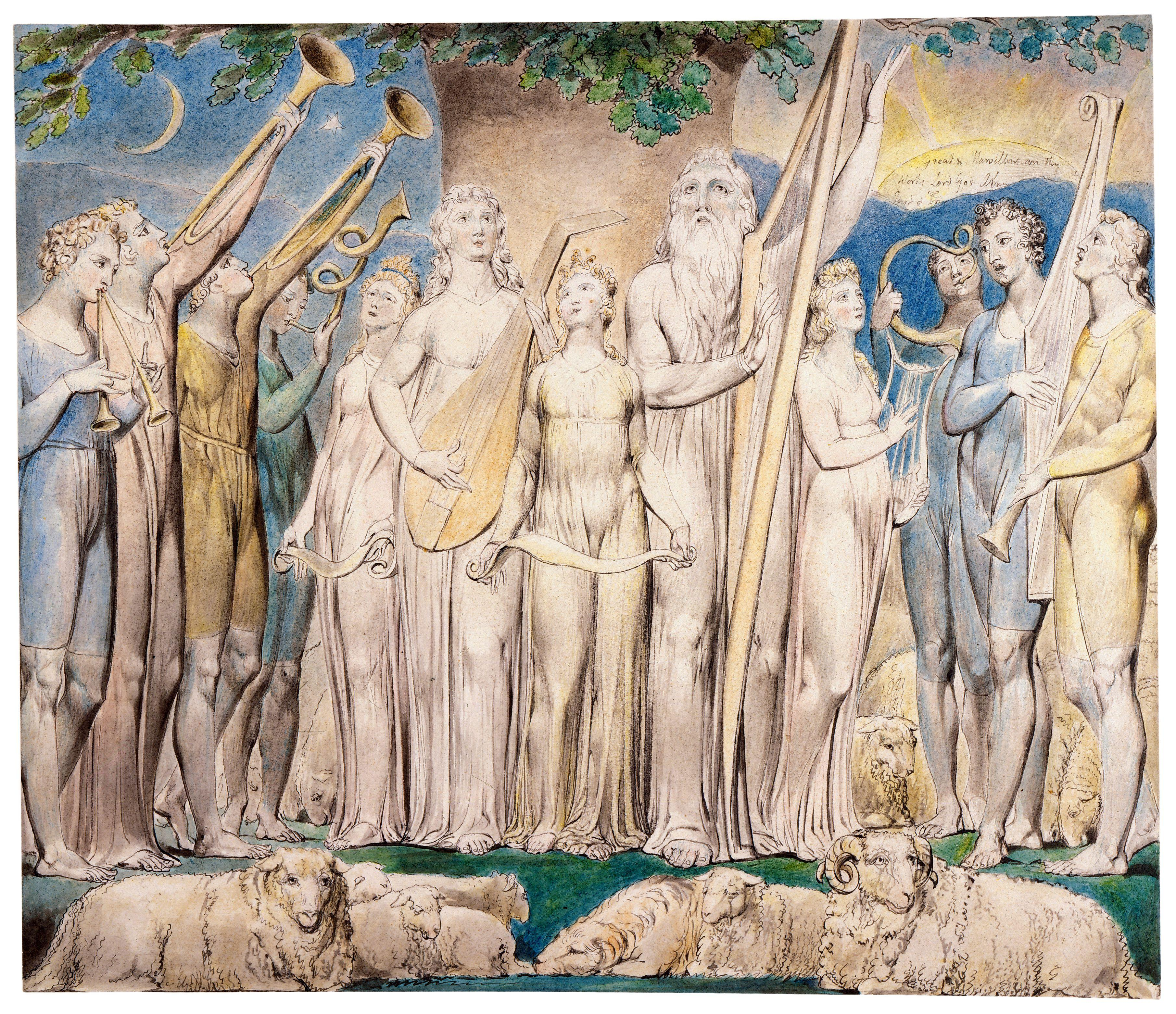 Job and His Family Restored to Prosperity, from the Butts set. Pen and black ink, gray wash, and watercolour, over traces of graphite